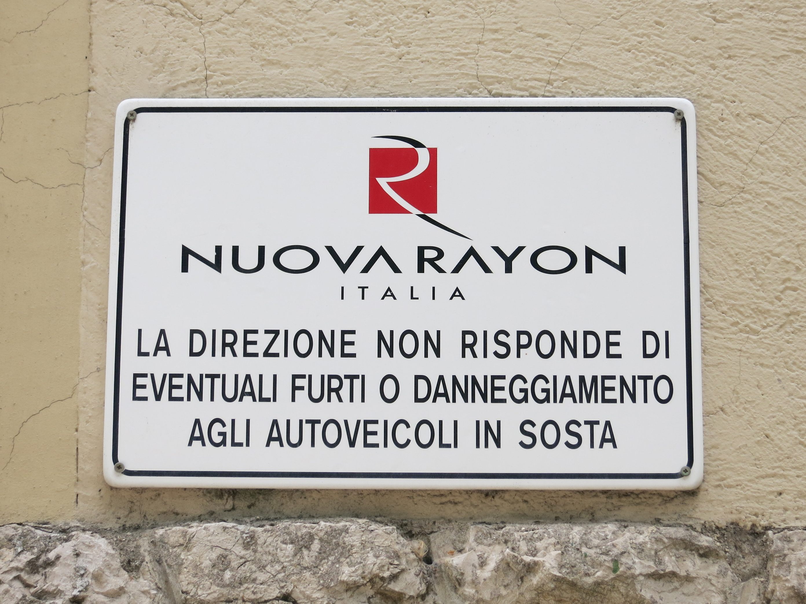 Plate of Nuova Rayon Italia SpA textile company at the entrance of the Rieti plant, in Maraini avanue (formerly known as Supertessile)